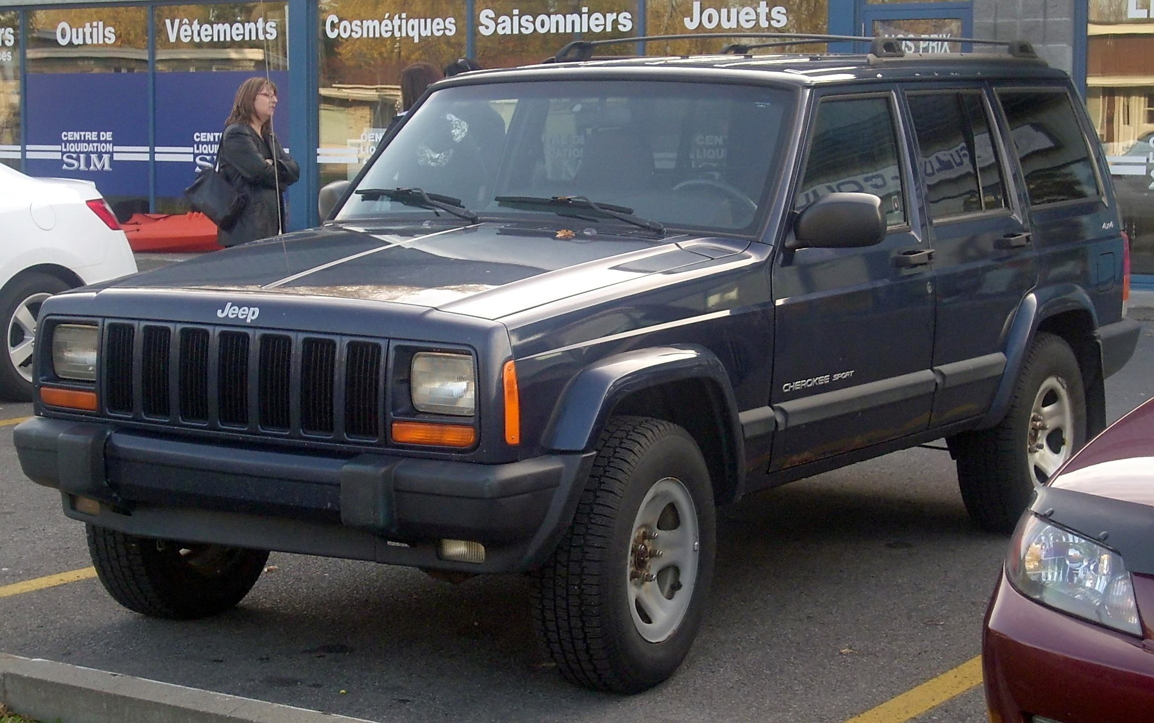 2000-2001 Jeep Cherokee photographed in Vaudreuil-Dorion, Quebec, Canada.